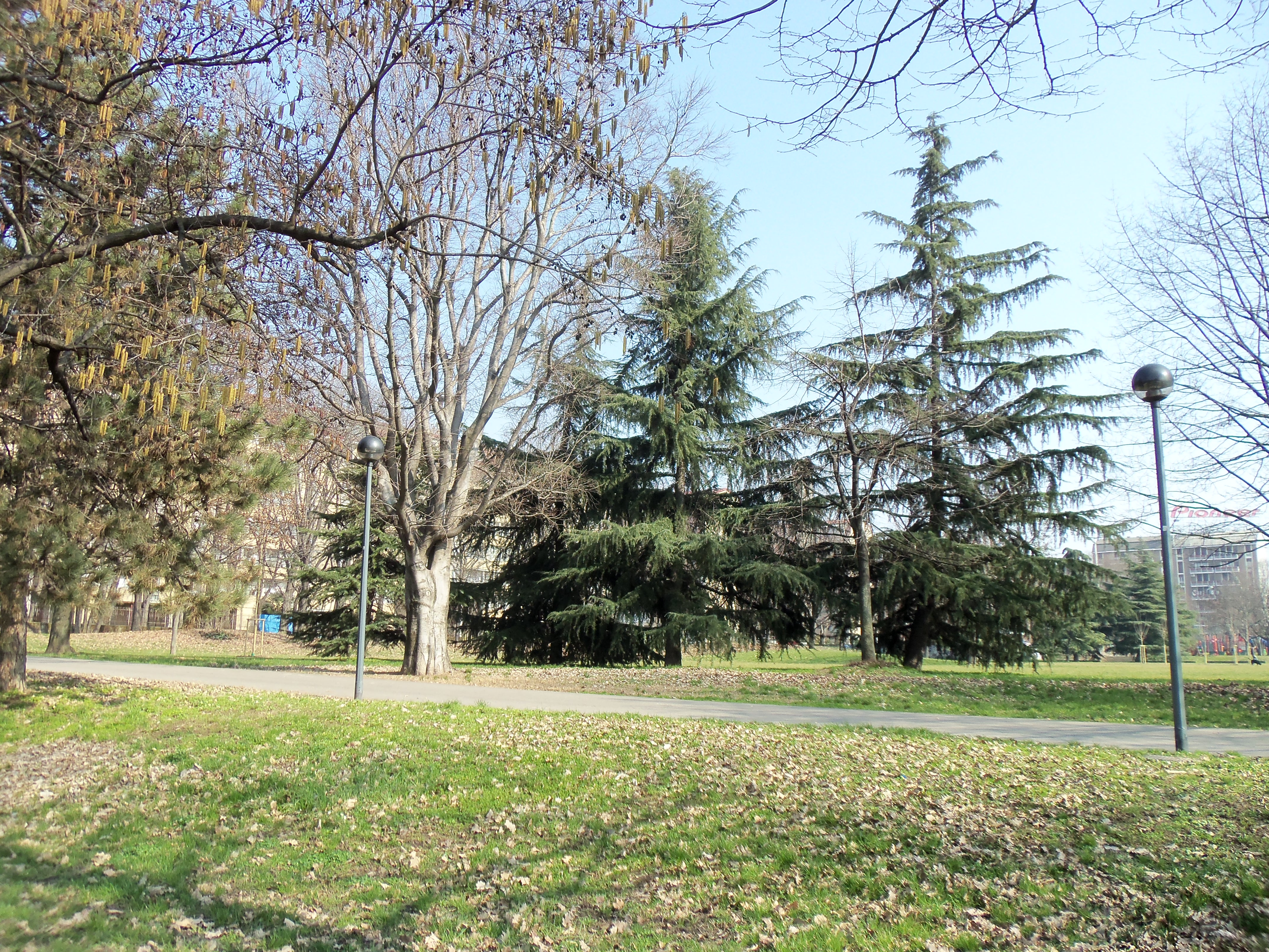 Milano, Parco La Spezia